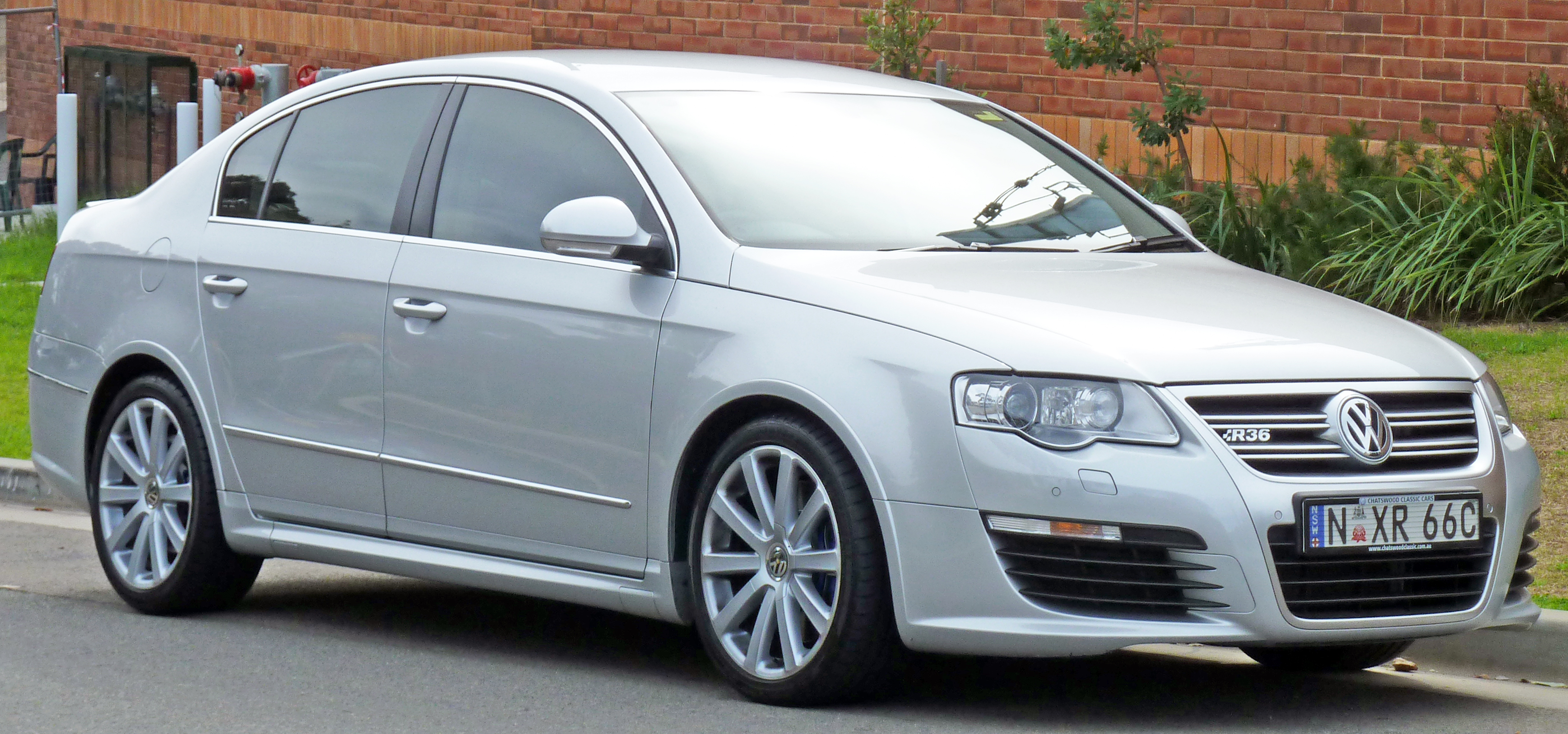 2008 Volkswagen Passat (3C) R36 4MOTION sedan. Photographed in Cronulla, New South Wales, Australia.